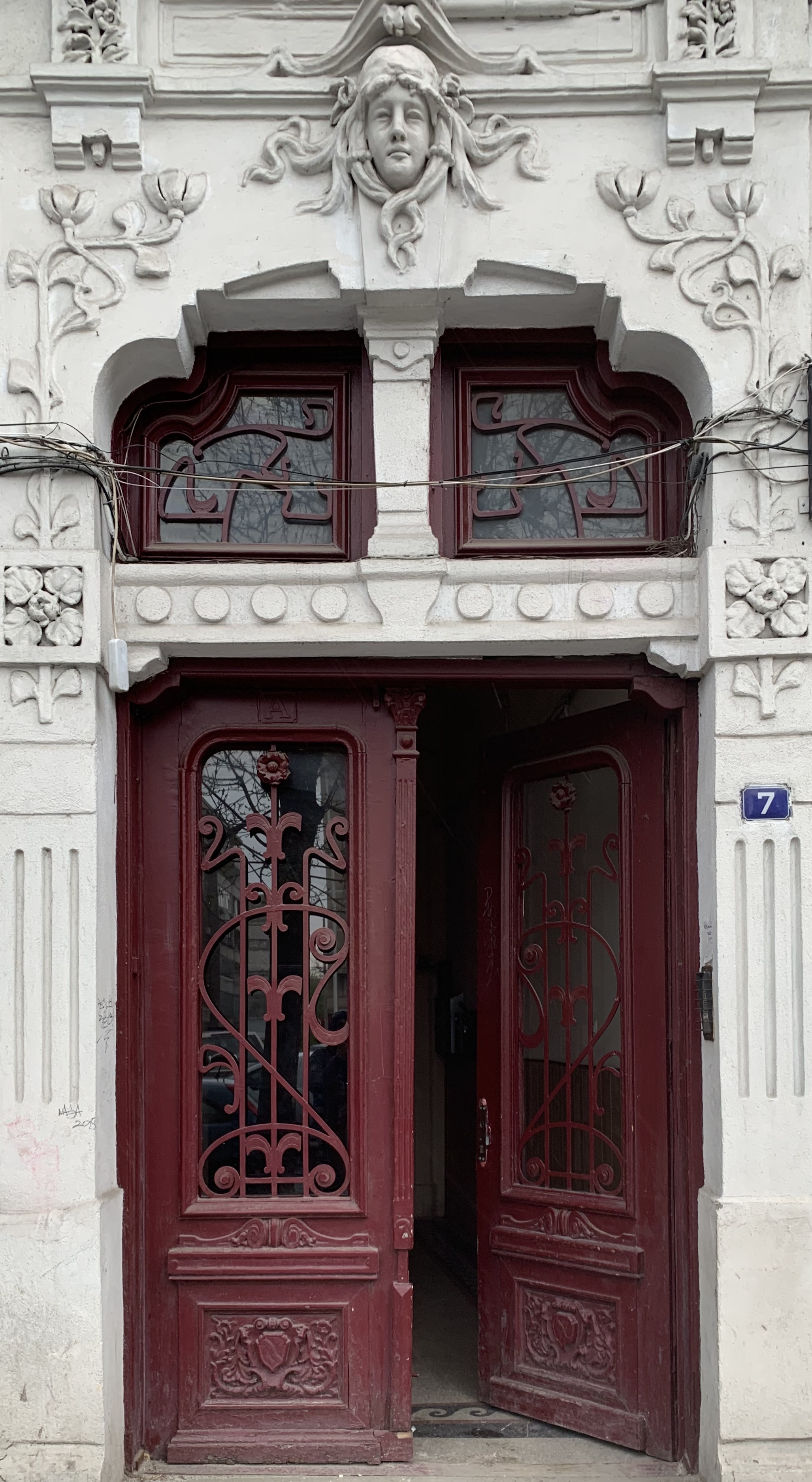 Art Nouveau entrance in Piața Mihail Kogălniceanu (Mihail Kogălniceanu Square), from Bucharest (Romania)